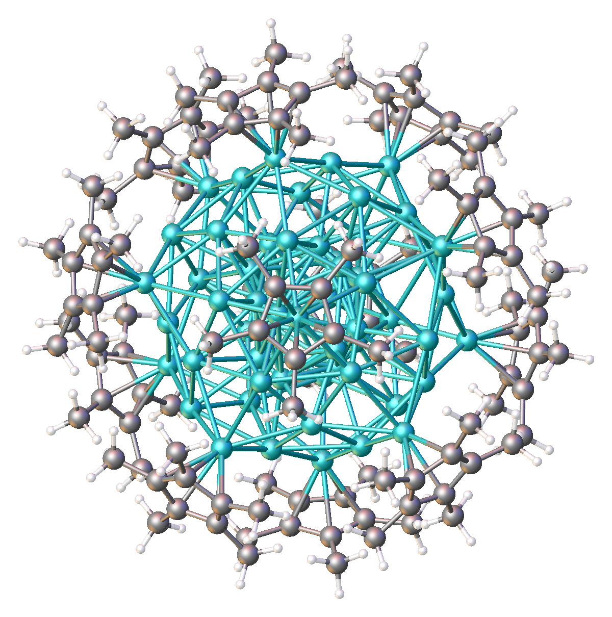 structure of Cp*10Al50 (omitting 6 deuterated benzene molecules in the lattice) according to doi=10.1002/anie.200453754